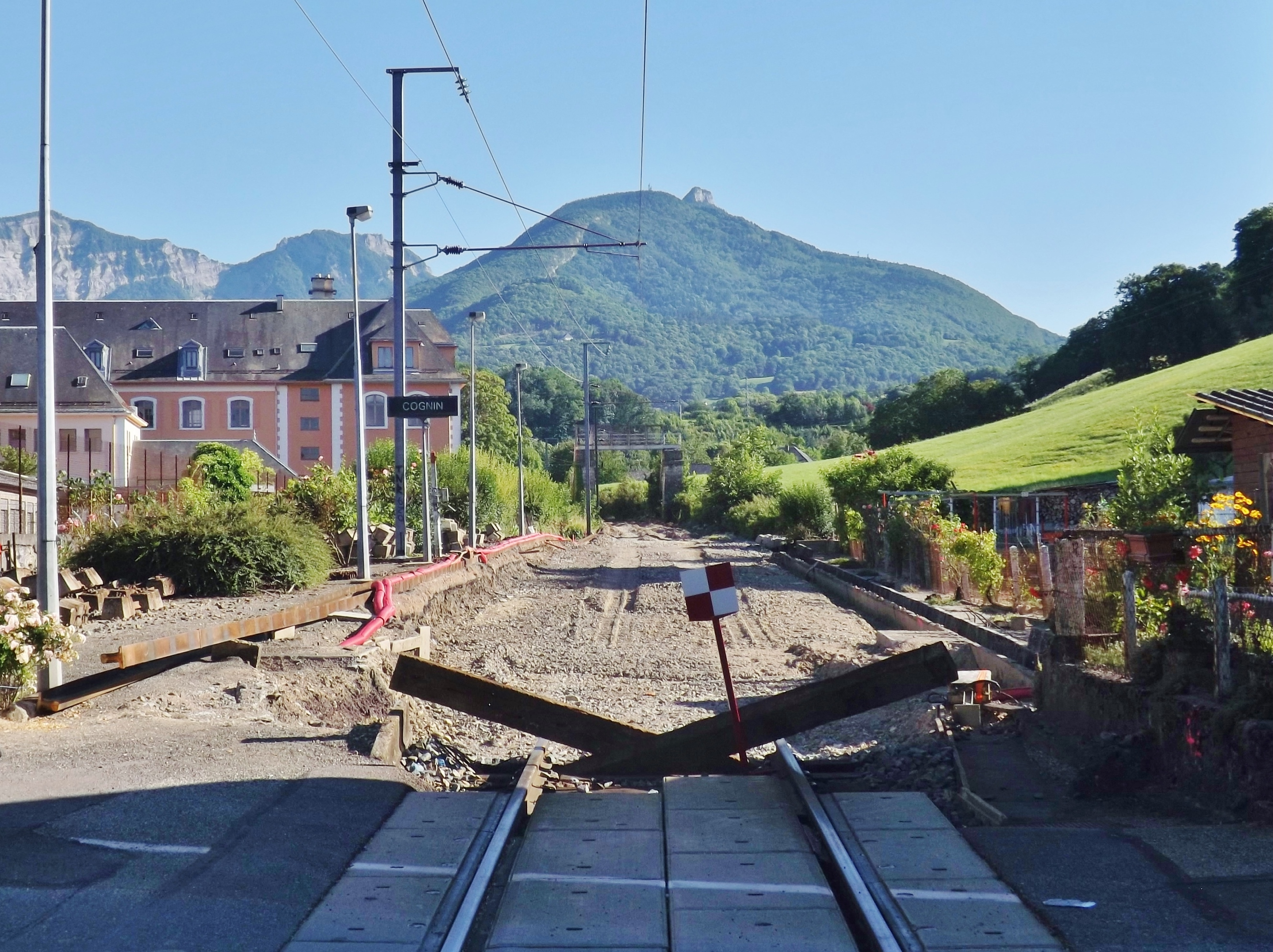 Sight, during July 2016, of the Saint-André-le-Gaz - Chambéry railway removed from the ancient Cognin station for repair works, here when coming from Chambéry, in Savoie, France.